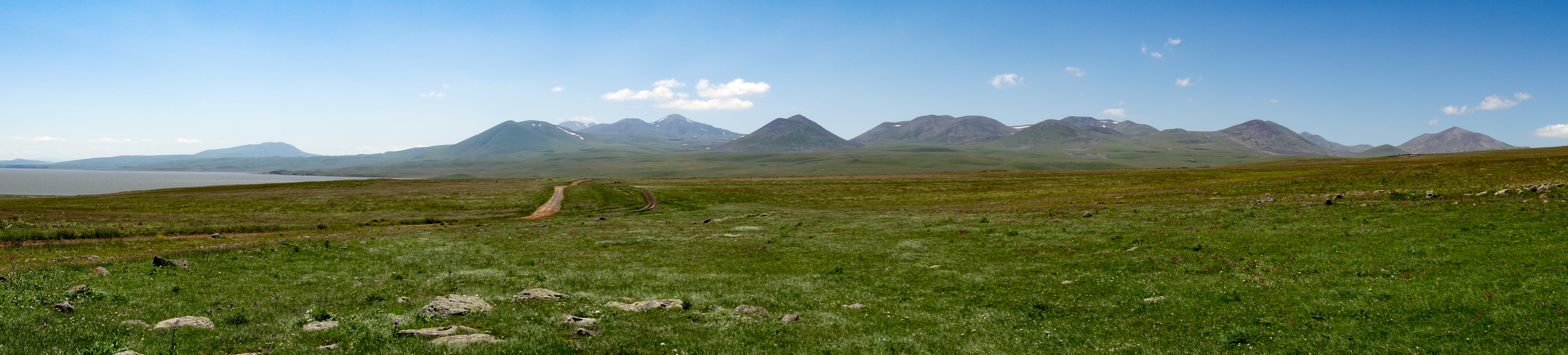 Panoramic view of Samsari Range from east, Samtskhe-Javakheti, Georgia